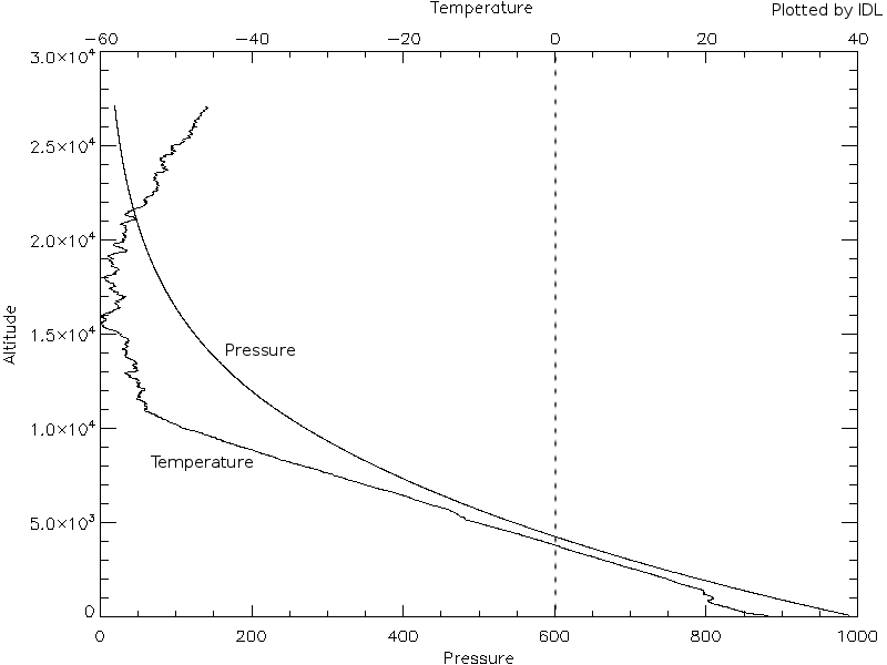 temperature and pressure graph of tropopause, plotted by IDL